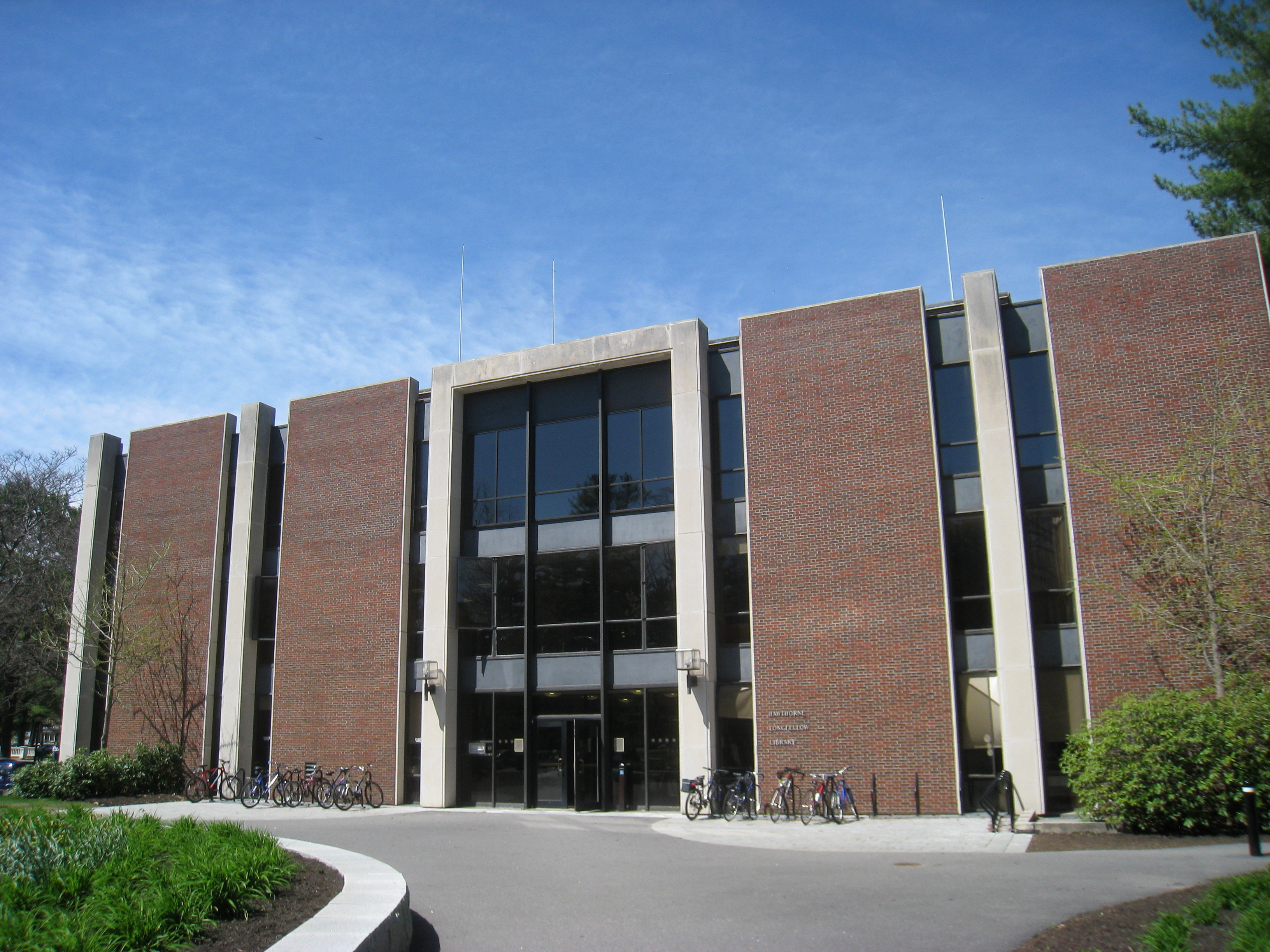 Hawthorne-Longfellow Library, Bowdoin College, Brunswick, Maine, USA.